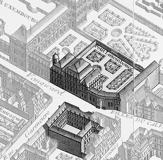 Detail from the 1739 Turgot map of Paris showing the Petit Luxembourg